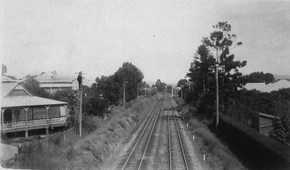 Railway line at Graceville, ca. 1915. Wooden residences line the railway line at Graceville.